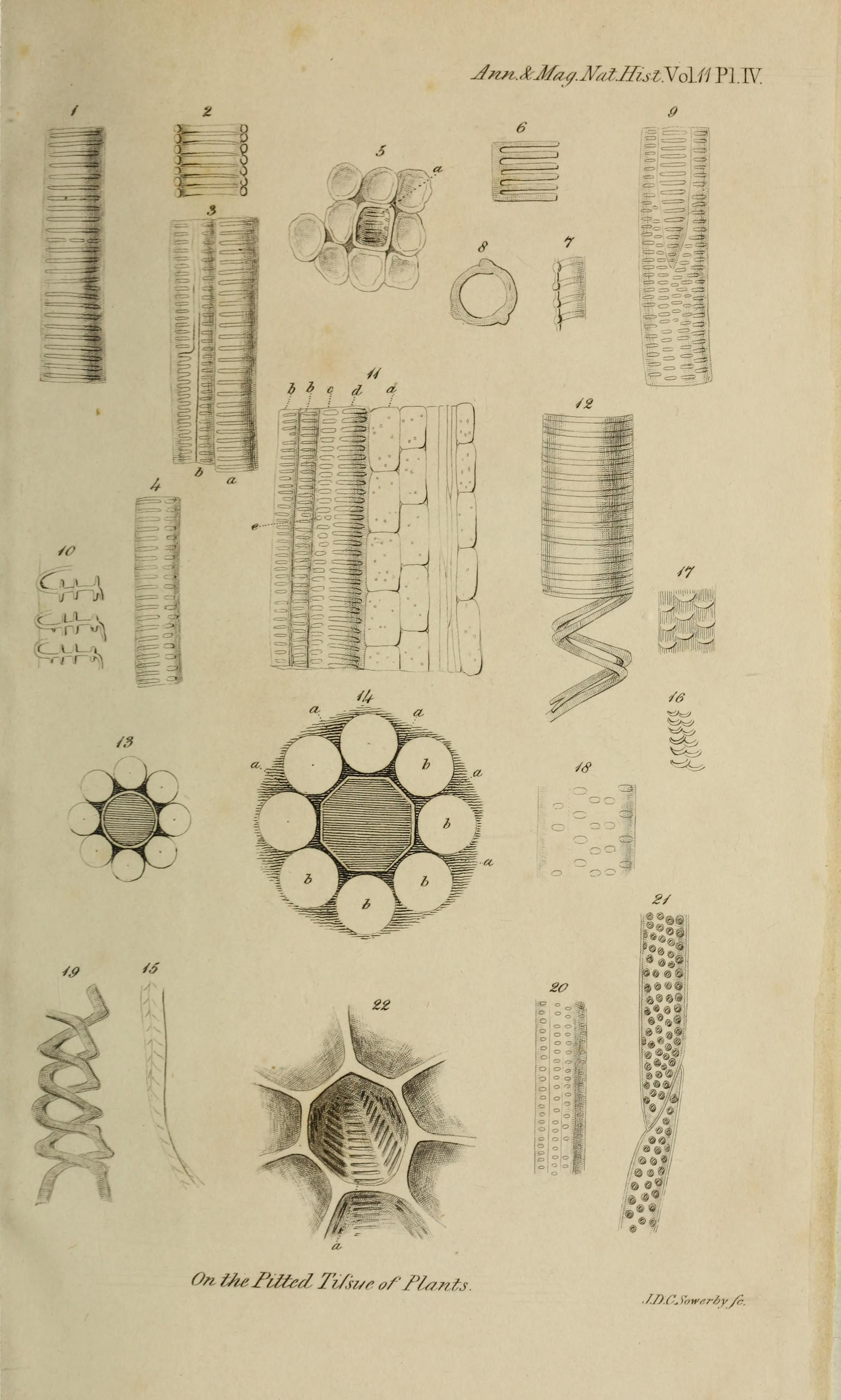 Title: Annals of natural history Year: 1838 (1830s) Authors: Subjects: Natural history; Botany; Zoology; Geology Publisher: [S. l. : s. n. ] Text Appearing Before Image: ' Text Appearing After Image: '